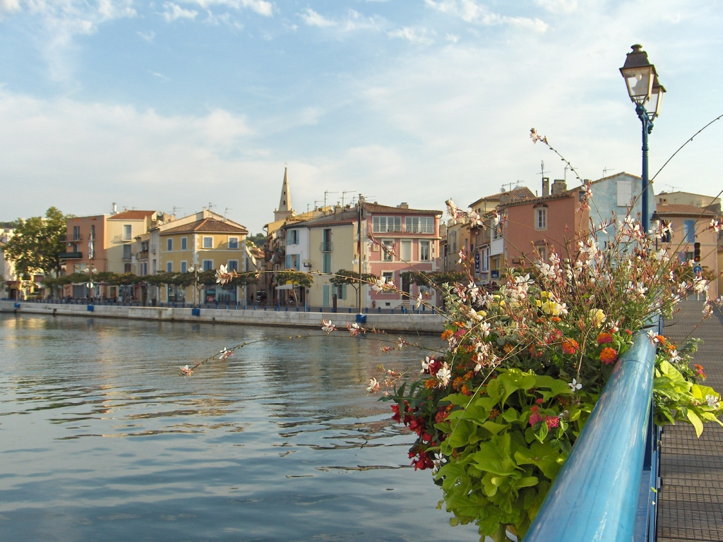 Quay Maurice Tessé (Martigues, Bouches-du-Rhône, France)